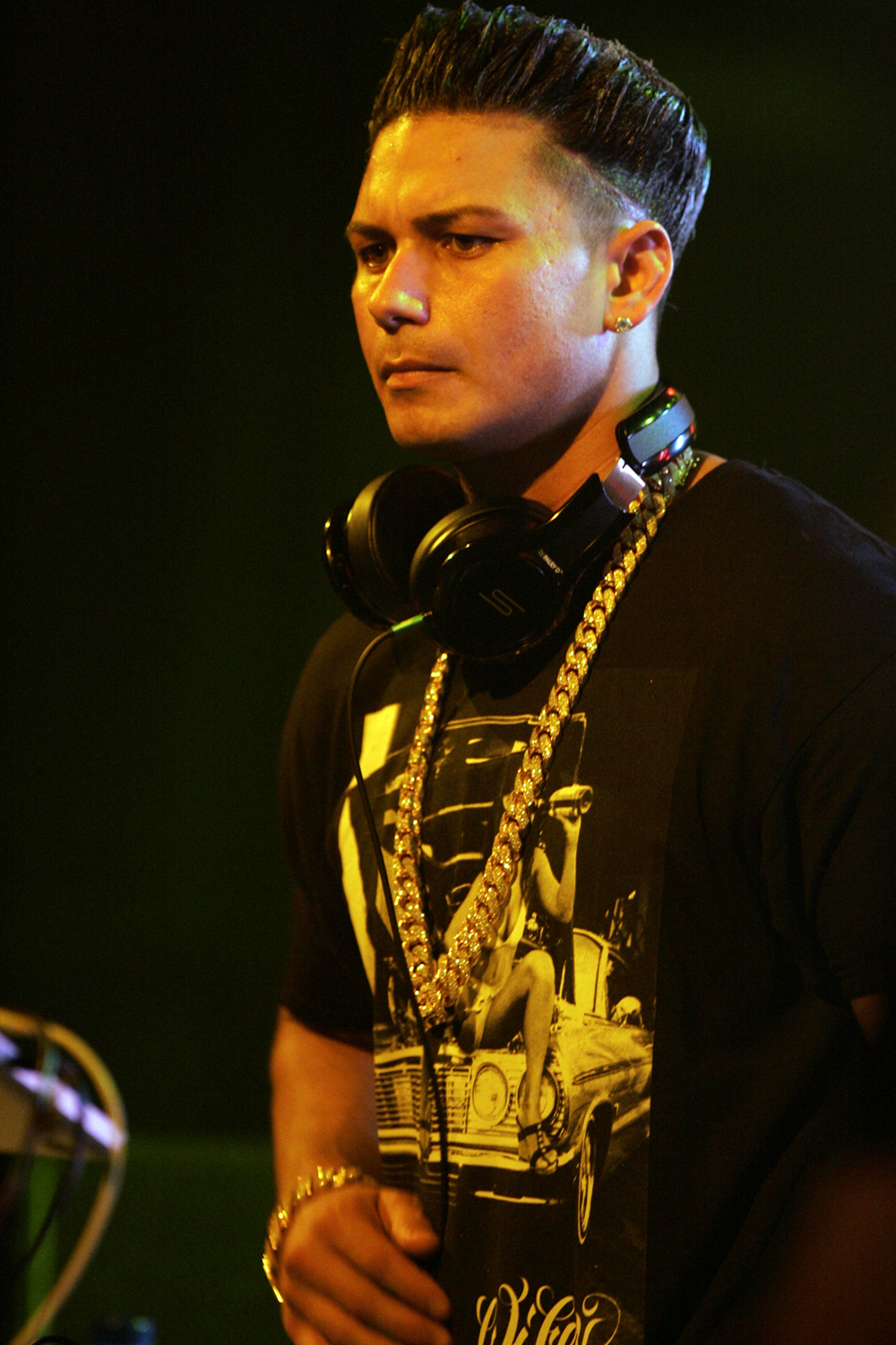 You would have to be living under a rock not to have heard of Pauly D. Born in Providence, R.I., Paul 'DJ Pauly' DelVecchio is recognised for his musical talent as well as his reality star status on MTV's highest rated show, Jersey Shore, which premiered in December 2009. Quickly a fan favourite, MTV announced Pauly as the first cast member to receive his own spinoff, The Pauly D Project, which chronicles his life as a celebrity DJ. It's been a meteoritic rise to fame, and in 2010, DJ Pauly released his first single entitled Beat Dat Beat, which quickly climbed the charts, further establishing his place in pop culture. In 2011, Pauly won Choice TV: Male Reality/Variety Star at the Teen Choice Awards after being nominated for the second year in a row. This powerhouse DJ has been honoured as one of US Weekly's hottest bodies and came in close second to Vin Diesel in People Magazine's 'Sexiest Man Alive on Facebook' contest. DJ Pauly D will perform at HQ Nightclub in Adelaide on January 24; Festival Hall in Melbourne on January 25; the Hordern Pavilion in Sydney on January 26; and Platinum Nightclub on the Gold Coast on January 27.